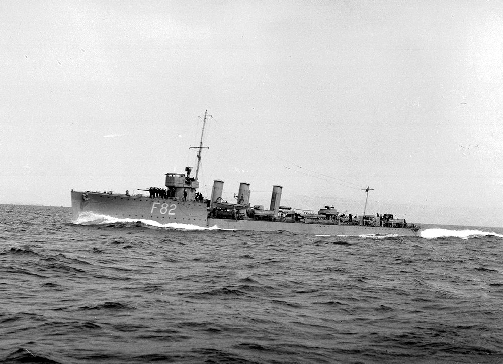 Port side view of the R-class destroyer HMS Thisbe at sea, 1917 (TWAM ref. 2931 War29). The shipyard of R. & W. Hawthorn Leslie at Hebburn built many fine warships. During the First World War the firm built 2 light cruisers, 3 destroyer leaders and 25 torpedo boat destroyers. The firm also built machinery and boilers for 2 battleships, and a further 3 light cruisers. These and other warships built by Hawthorn Leslie before the War, are remembered in this set. There are remarkable images of warships under construction at Hebburn, as well as fascinating shots of the people who attended the launches. The set also contains majestic views of the ships at sea. The images are not only a testimony to the skill of those who designed and built these ships but also to the courage of those who sailed in them. (Copyright) We're happy for you to share these digital images within the spirit of The Commons. Please cite 'Tyne & Wear Archives & Museums' when reusing. Certain restrictions on high quality reproductions and commercial use of the original physical version apply though; if you're unsure please